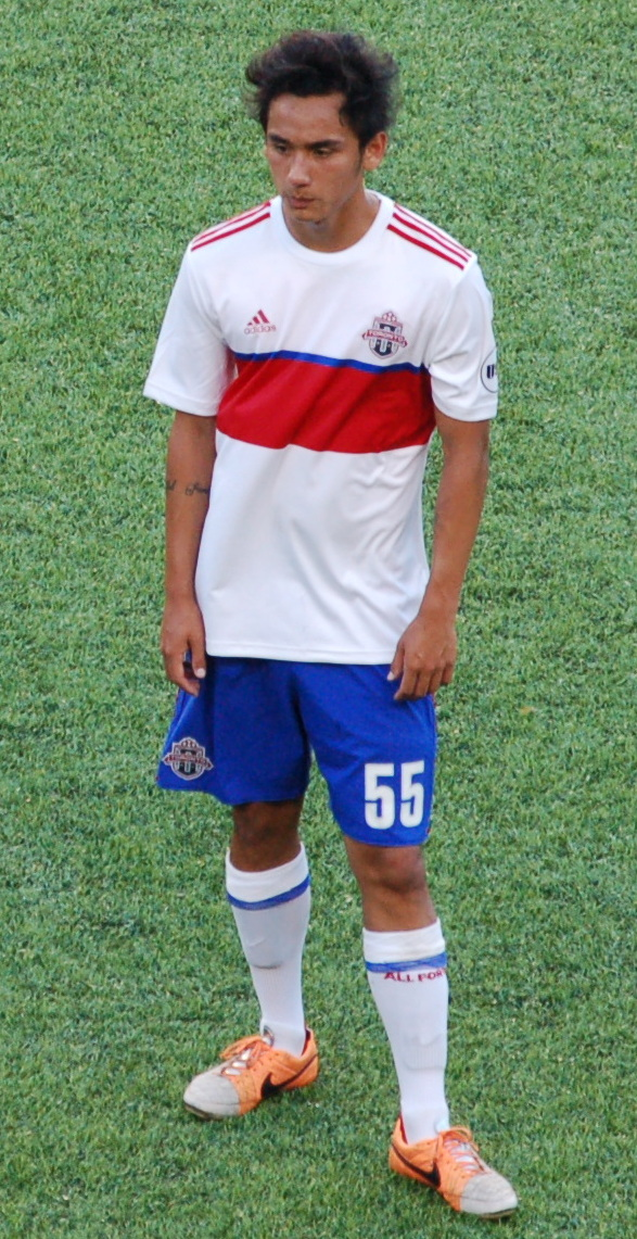 Andrew Wiedeman (FCC) and Aidan Daniels (TFC) Taken during a match between FC Cincinnati and Toronto FC II at Nippert Stadium in Cincinnati on June 18, 2016.